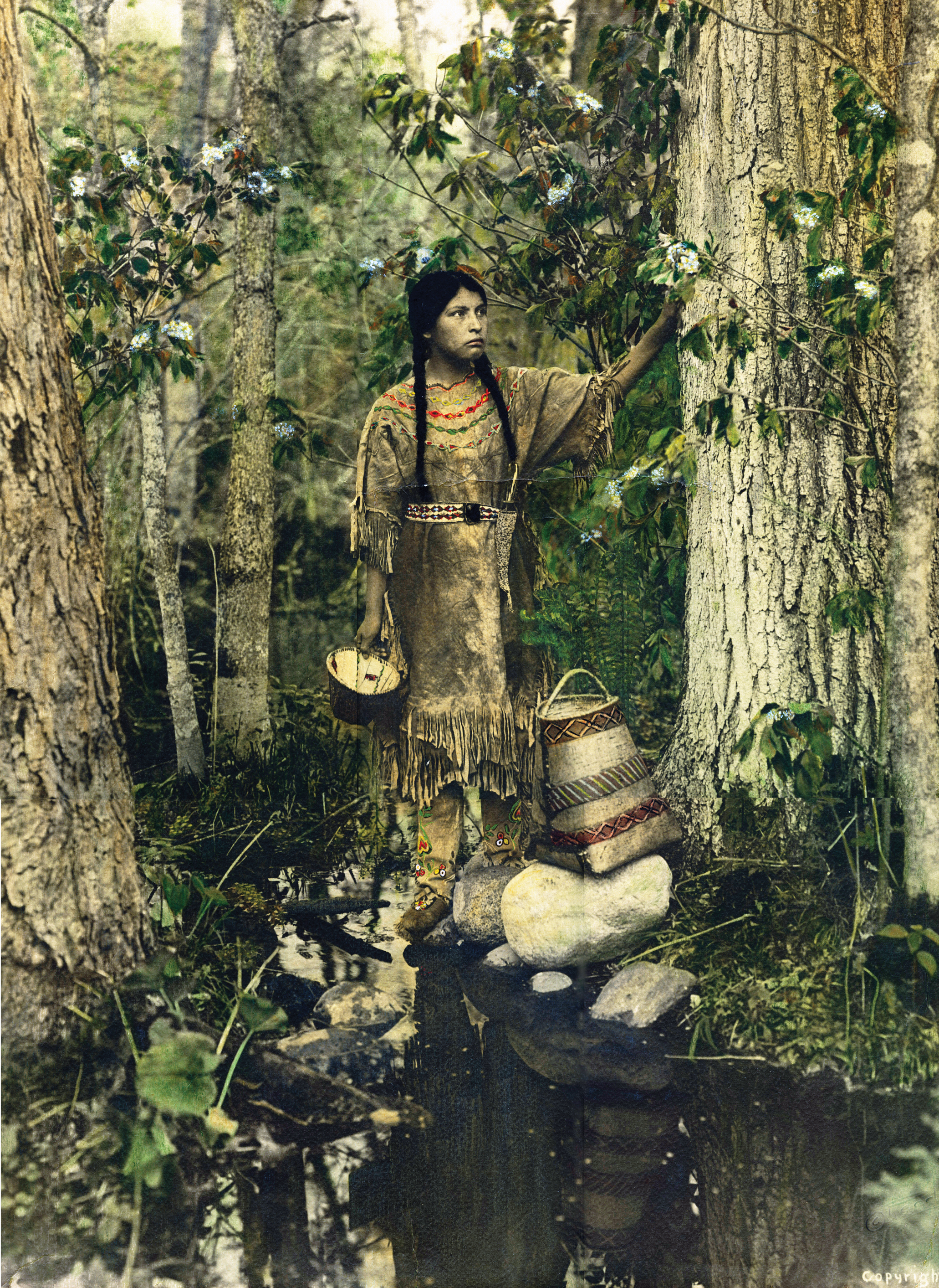 Ojibwe She-Who-Travels-In-The Sky